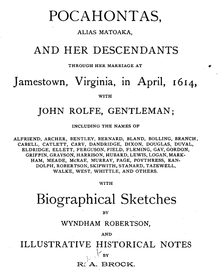 "Pocahontas, alias Matoaka, and Her Descendants, through Her Marriage at Jamestown, Virginia, in April 1614, with John Rolfe, Gentleman," by Wyndham Robertson (with illustrative historical notes by R. A. Brock), published by J. W. Randolph & English, Richmond, 1887.